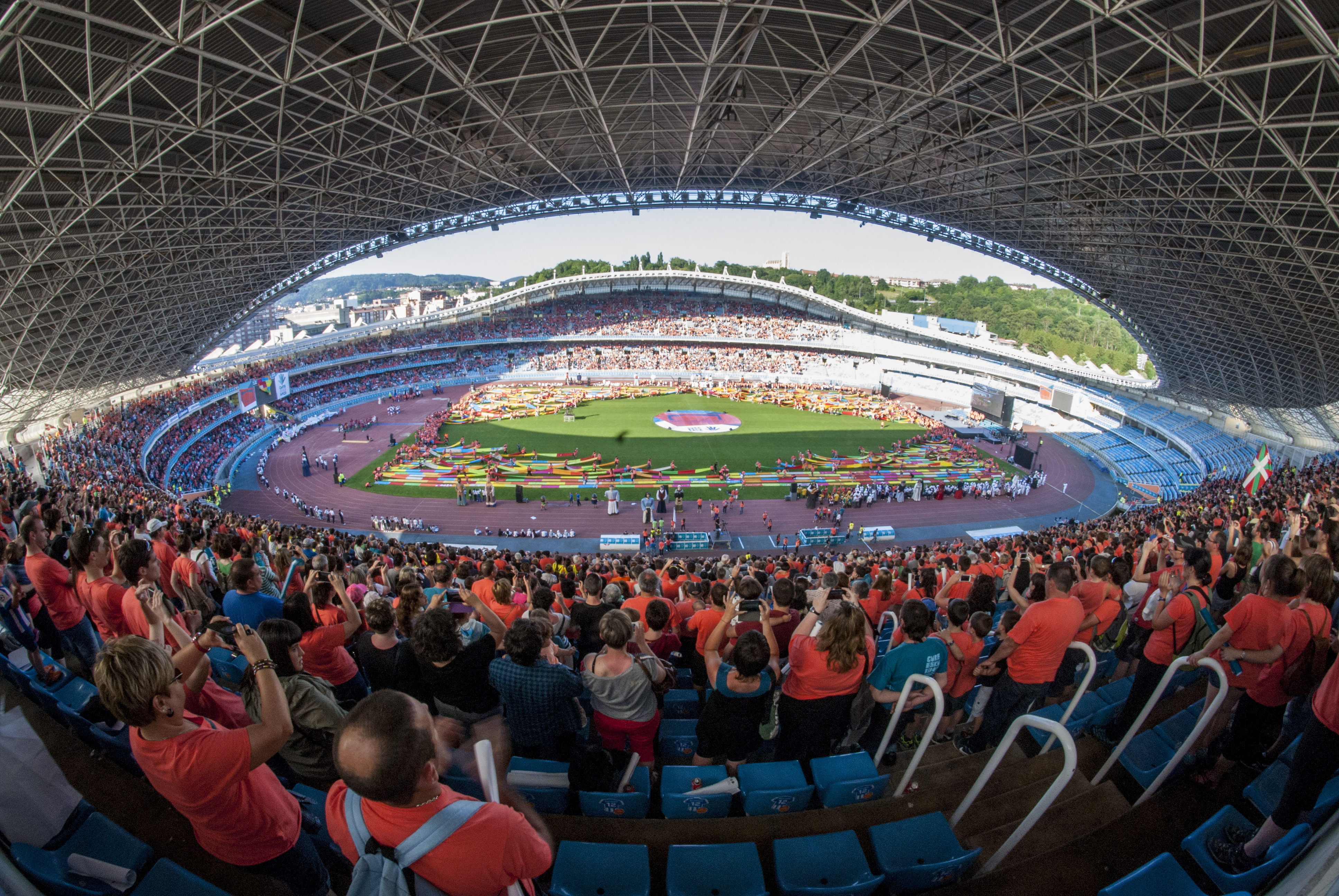 Gure esku dago, Anoeta stadium. Donostia-San Sebastián, Basque Country.